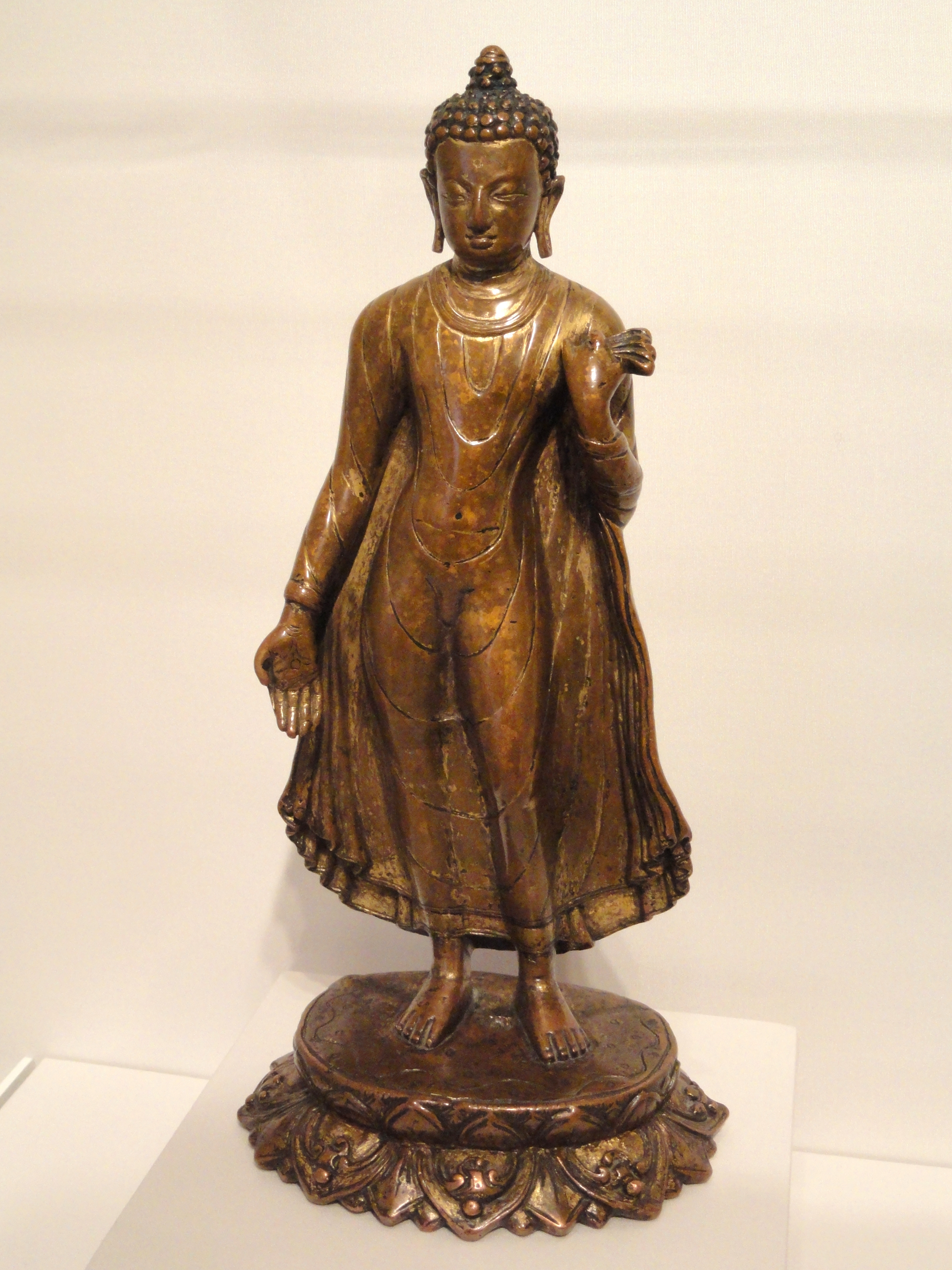 Exhibit in the Sackler Museum, Harvard University, Cambridge, Massachusetts, USA. The museum permitted photography of this artwork without restriction. This artwork is in the public domain because the artist died more than 70 years ago.